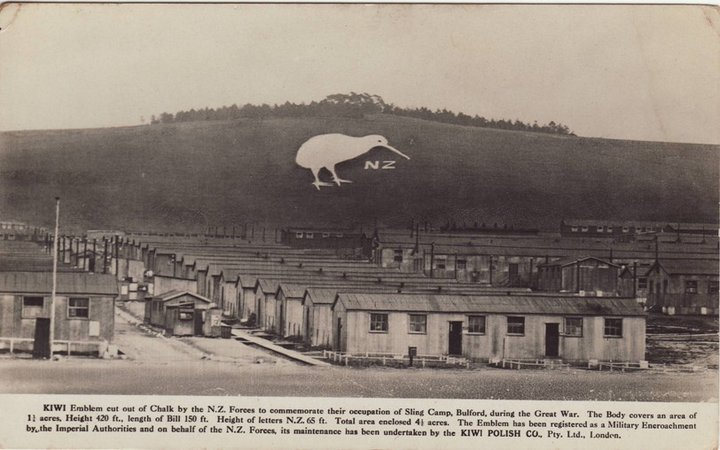 Postcard depicting the Bulford Kiwi